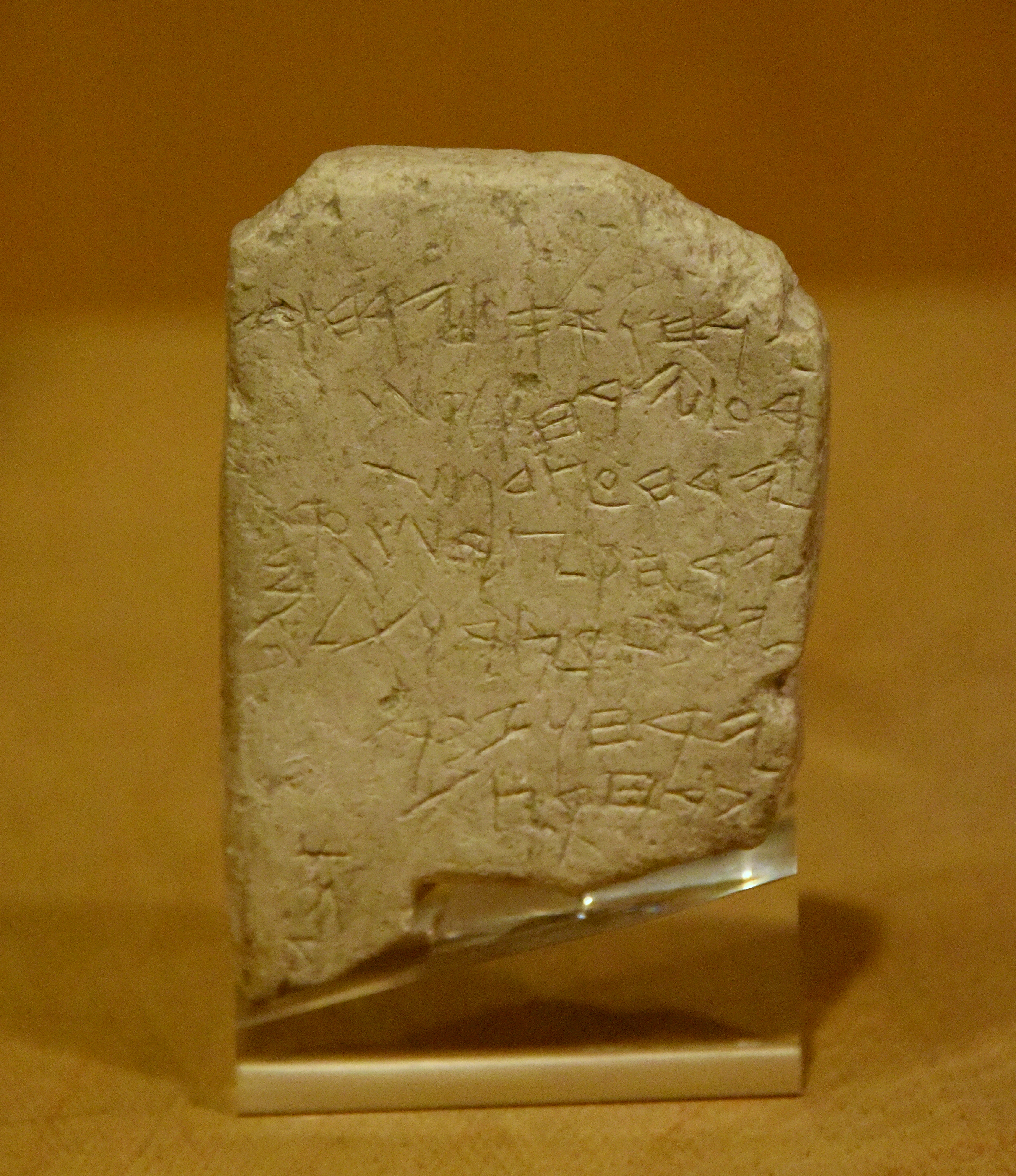 The Gezer Calendar tablet is one of the earliest Hebrew texts. The so-called "Calendar" narrates the agricultural phases of a year in puzzles, using a poetic language. Early Iron Age, 10th century BCE. From Gezer, in modern-day State of Israel. Museum of Archaeology, Istanbul, Turkey.